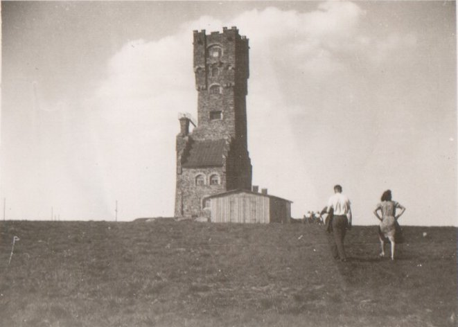 Former stone tower on Praděd, Czechoslovakia. Personality rights warning Although this work is freely licensed or in the public domain, the person(s) shown may have rights that legally restrict certain re-uses unless those depicted consent to such uses. In these cases, a model release or other evidence of consent could protect you from infringement claims.